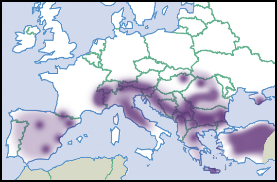 Oligolimax annularis (Studer, 1820). Distribution in Europe, scientific state of knowledge of 2012. Source description in English. Light colour indicated rare occurrences or regions where the species could eventually be expected to occur. Dark colour indicated relatively reliable occurrences, as well as regions where the species was expected to occur, and where the species was not known to be extremely rare. Dark colour indications were not necessarily based on published records. Species summary in AnimalBase